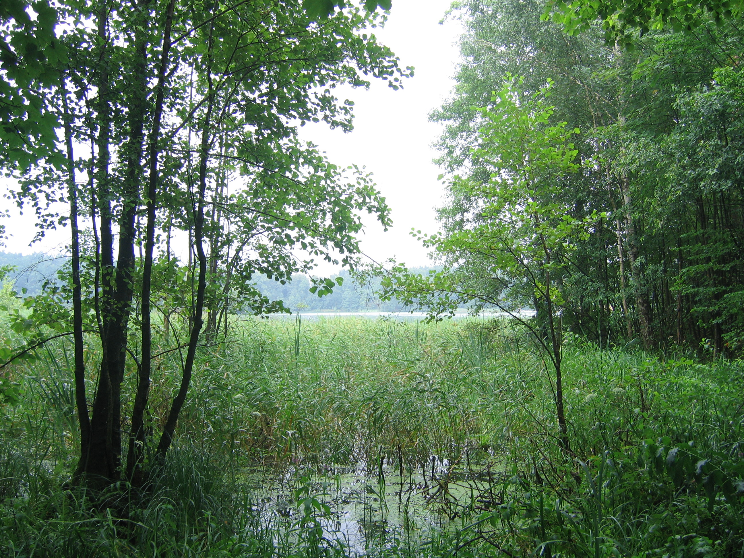 Zbiczno Lake, Poland, western shore